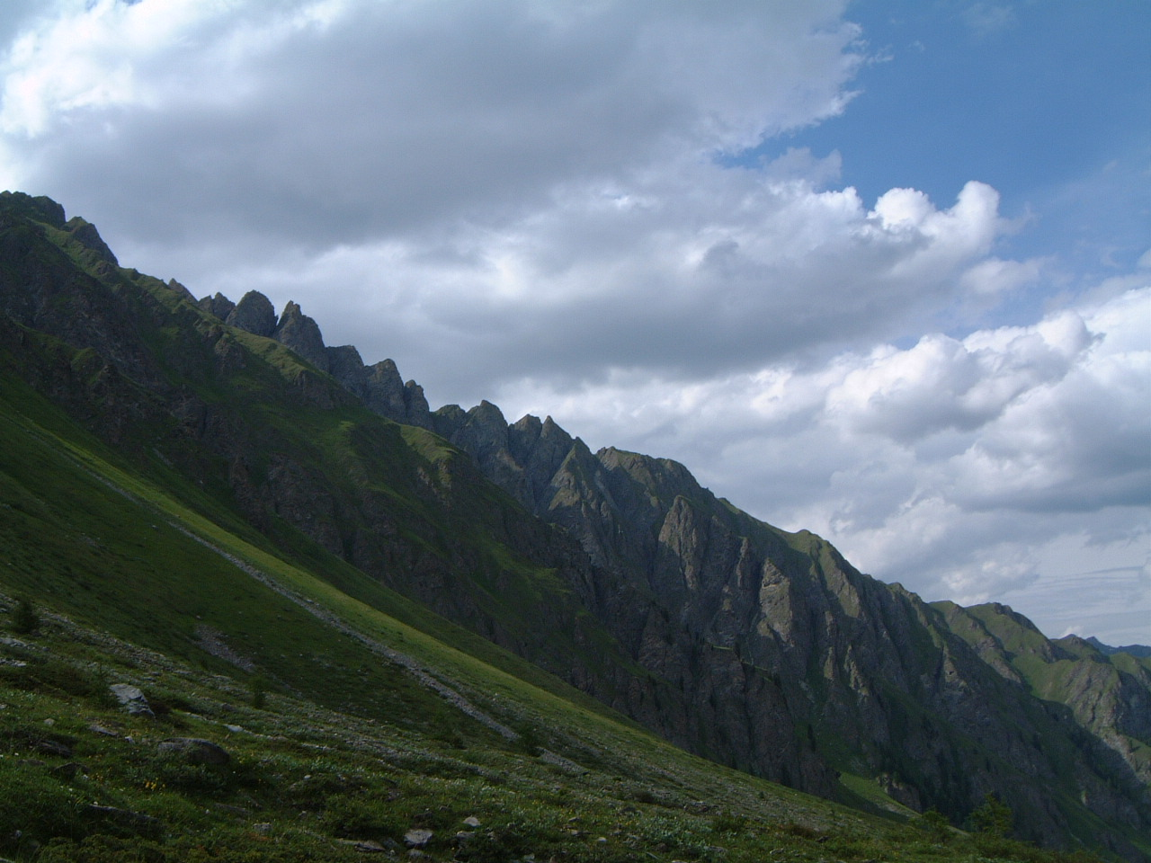 Val Sampuoir (Tschlin): Curschiglias